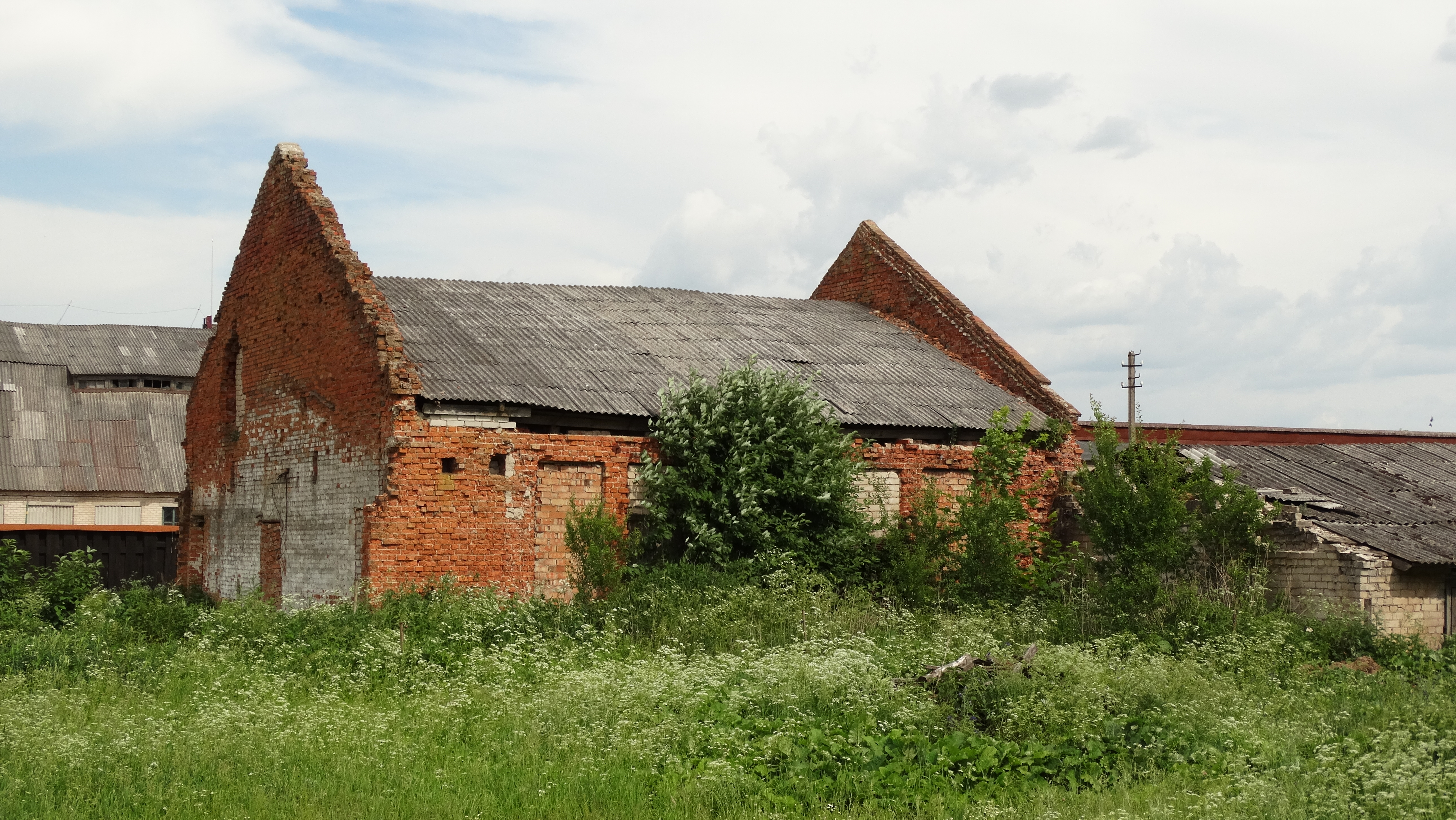 Liktėnai, Raseiniai district, Lithuania